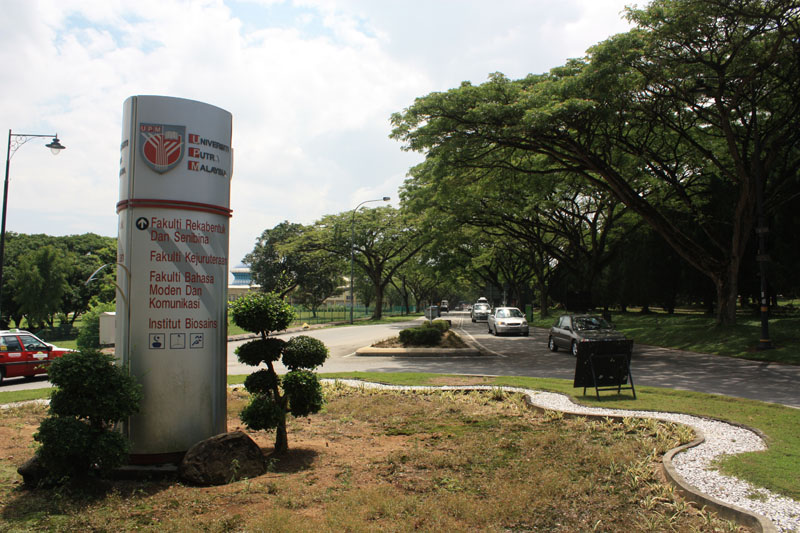 Universiti Putra Malaysia